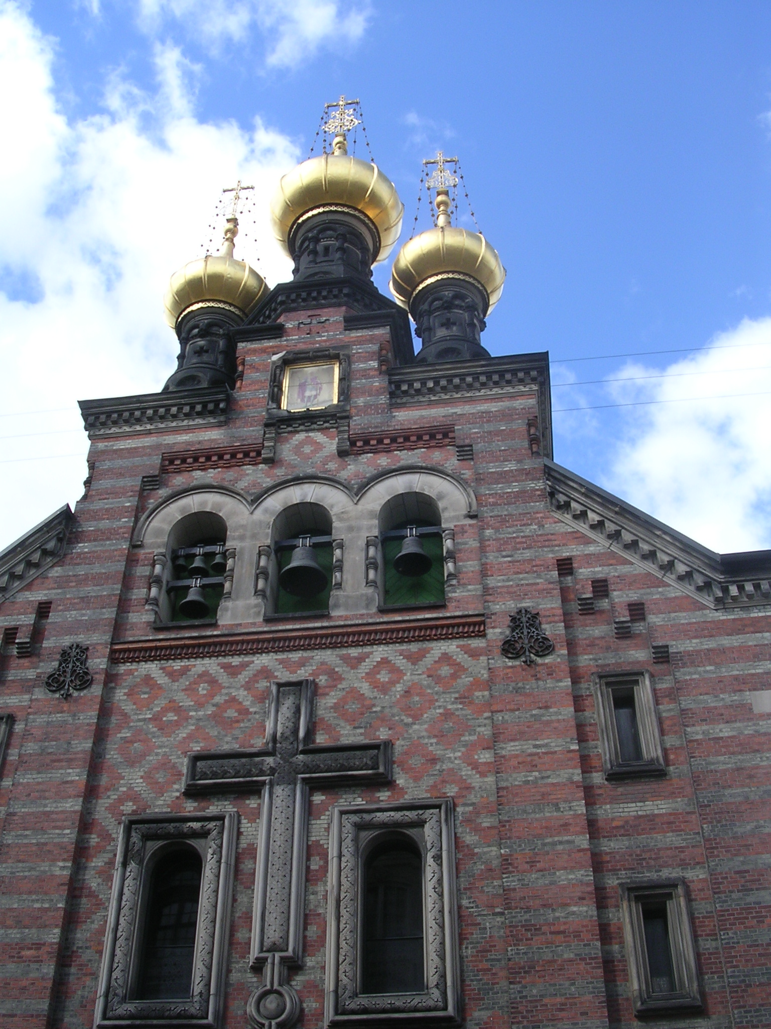 The Alexander Nevsky Church in Copenhagen, Denmark Architect: David Iwanowitsh Grimm